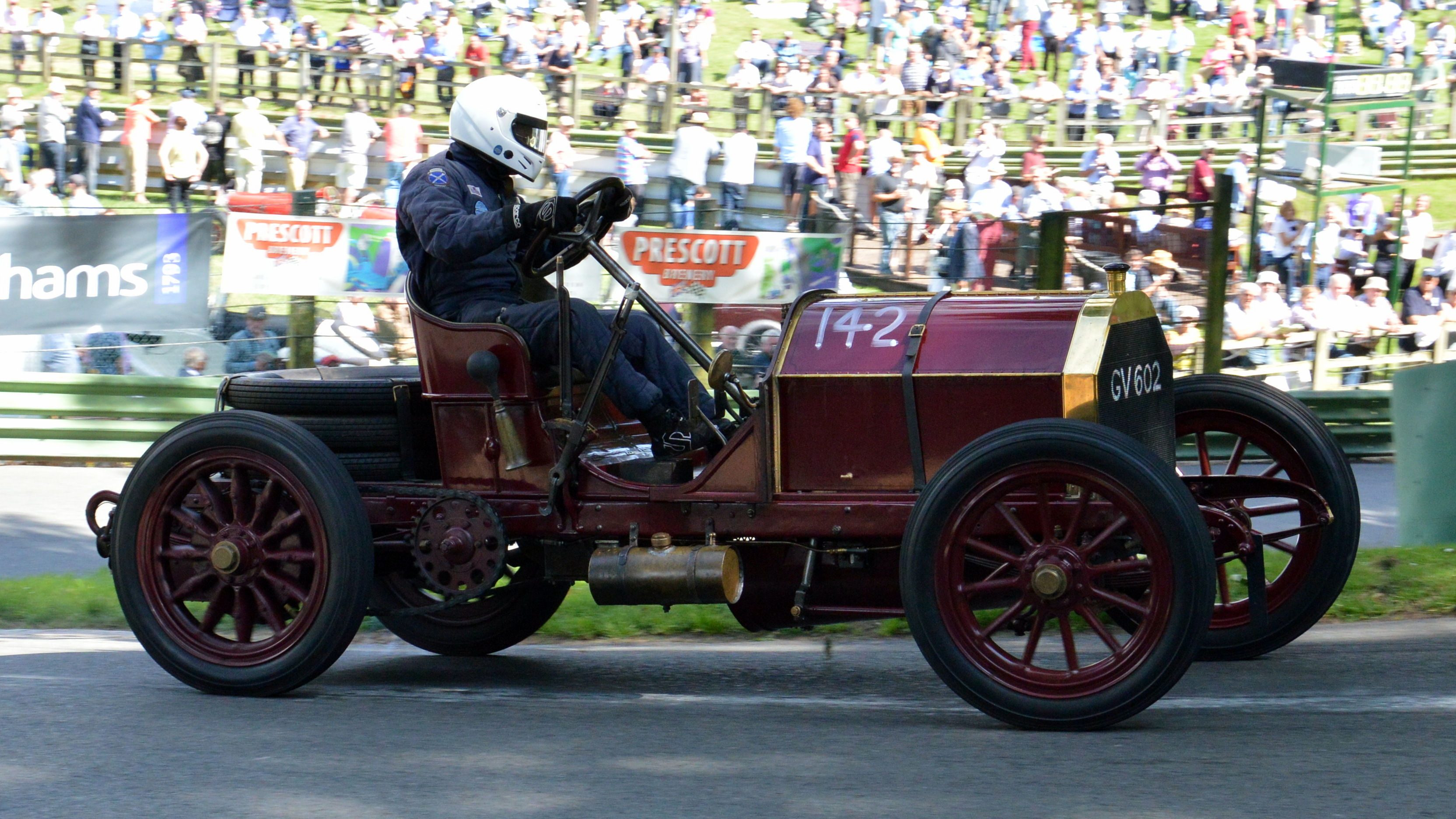 Rogers Collings drives BJA Collings' 9236cc 1903 Mercedes 60HP on a timed run at the VSCC hill climb at Prescott